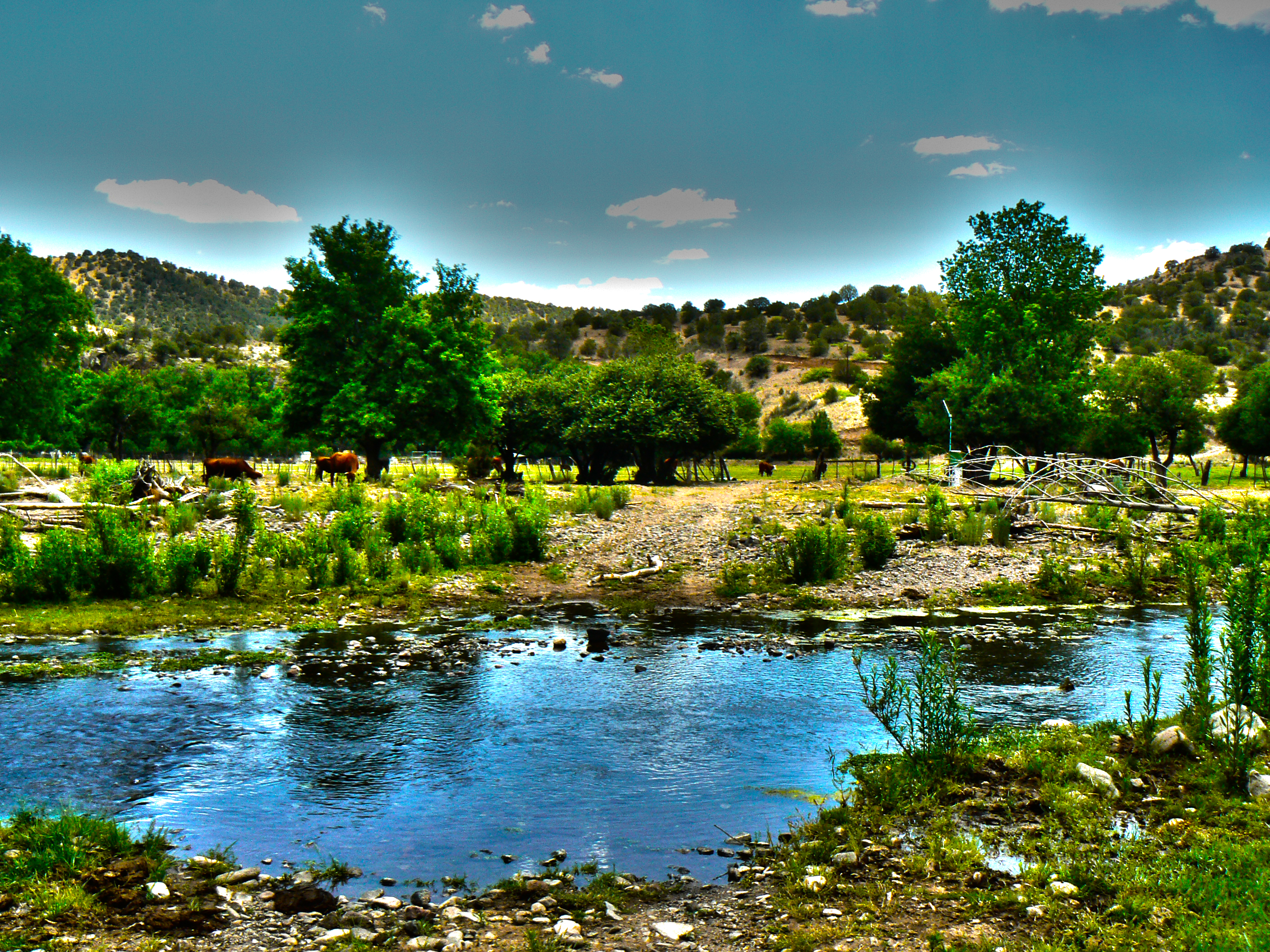 The Mimbres River in June 2008. New Mexico, USA